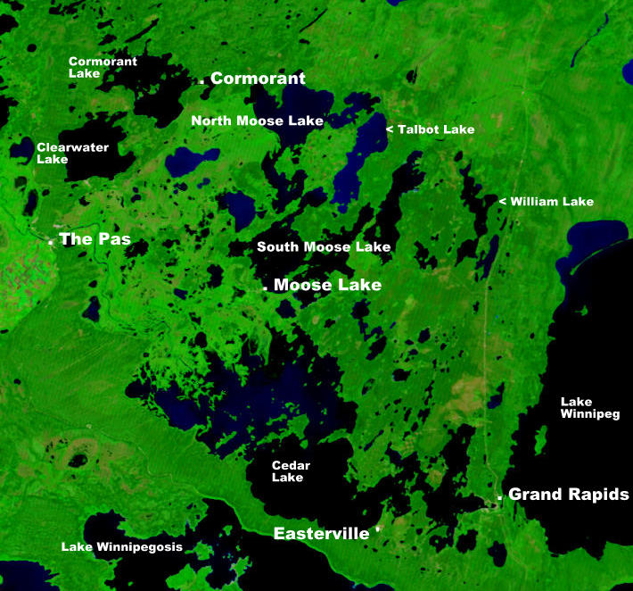 Portion of NASA map showing Cedar Lake in Manitoba (Captions have been added by Kayoty)